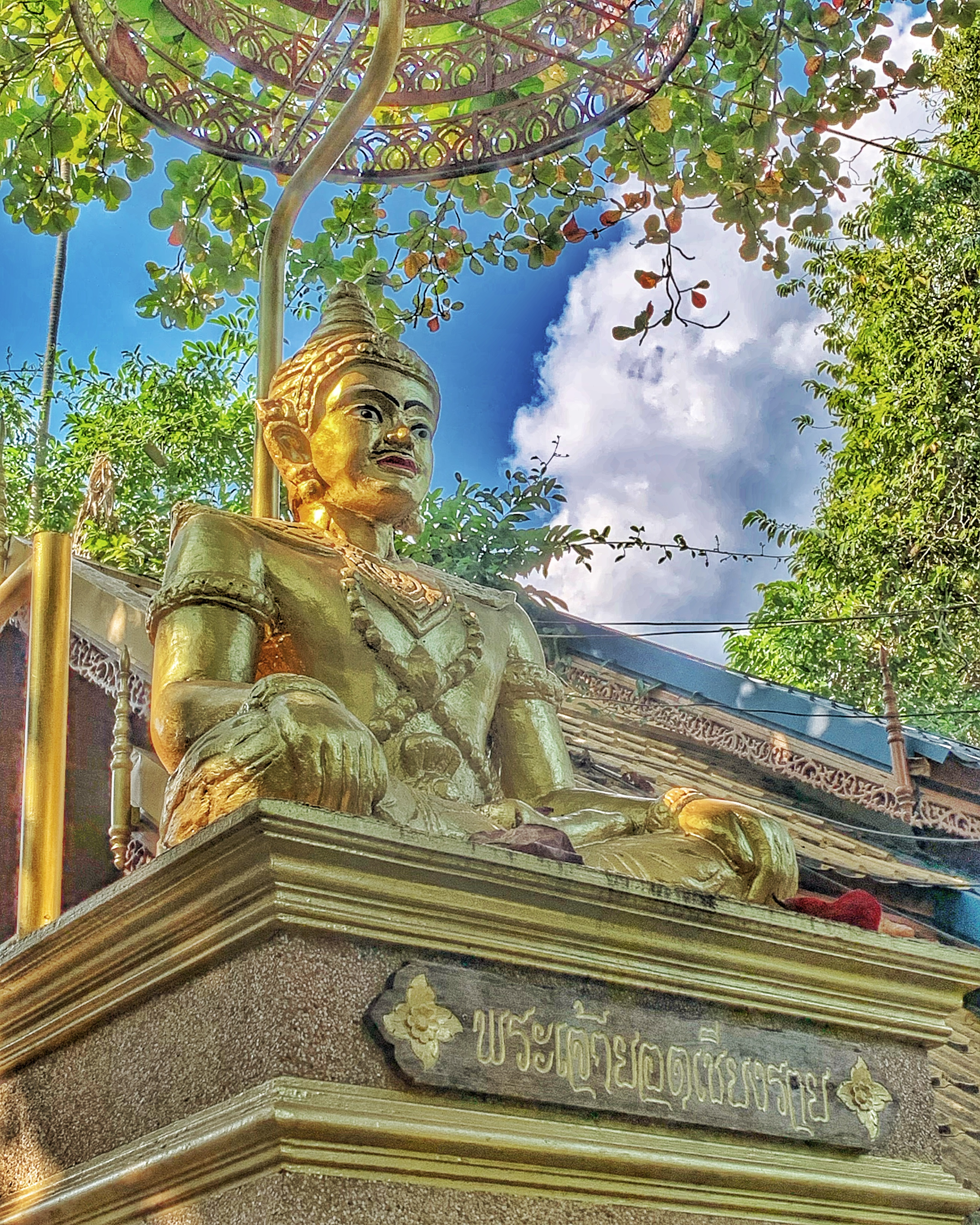 Phra Chao Yod Chiang Rai